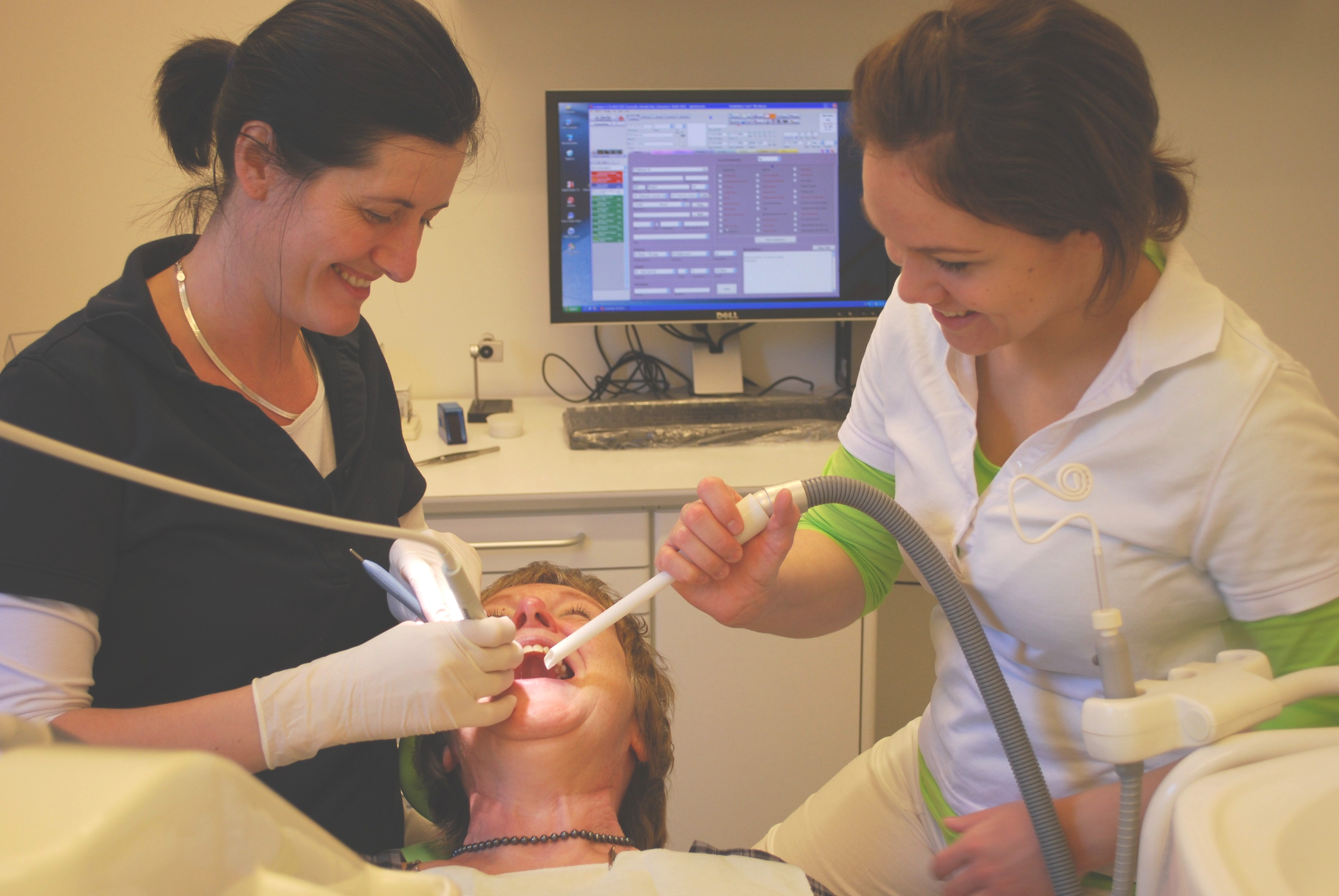 A Dentist and her Dental assistant